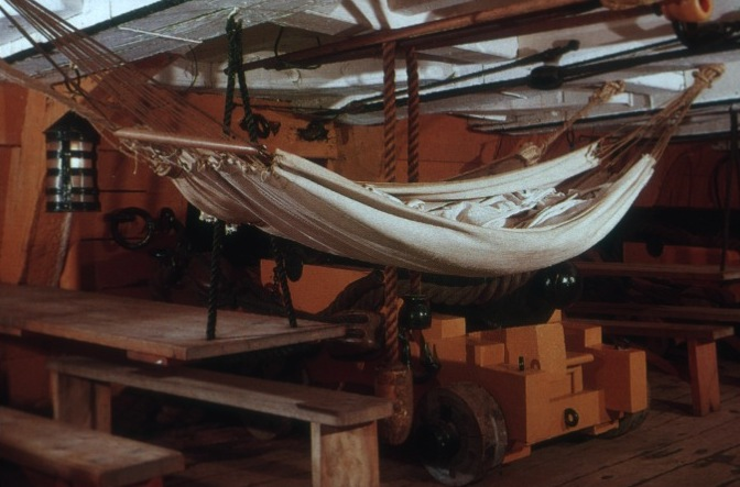 THIS PICTURE SHOWS HOW THE SAILORS TOOK THEIR MEALS AN D SLUNG THEIR HAMMOCKS RIGHT BESIDE THE GUNS